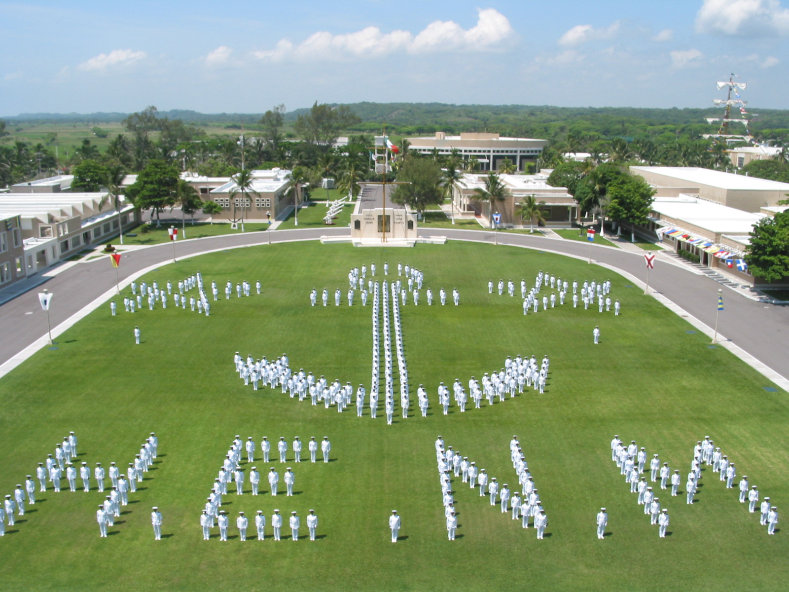 HEROICA ESCUELA NAVAL MILITAR